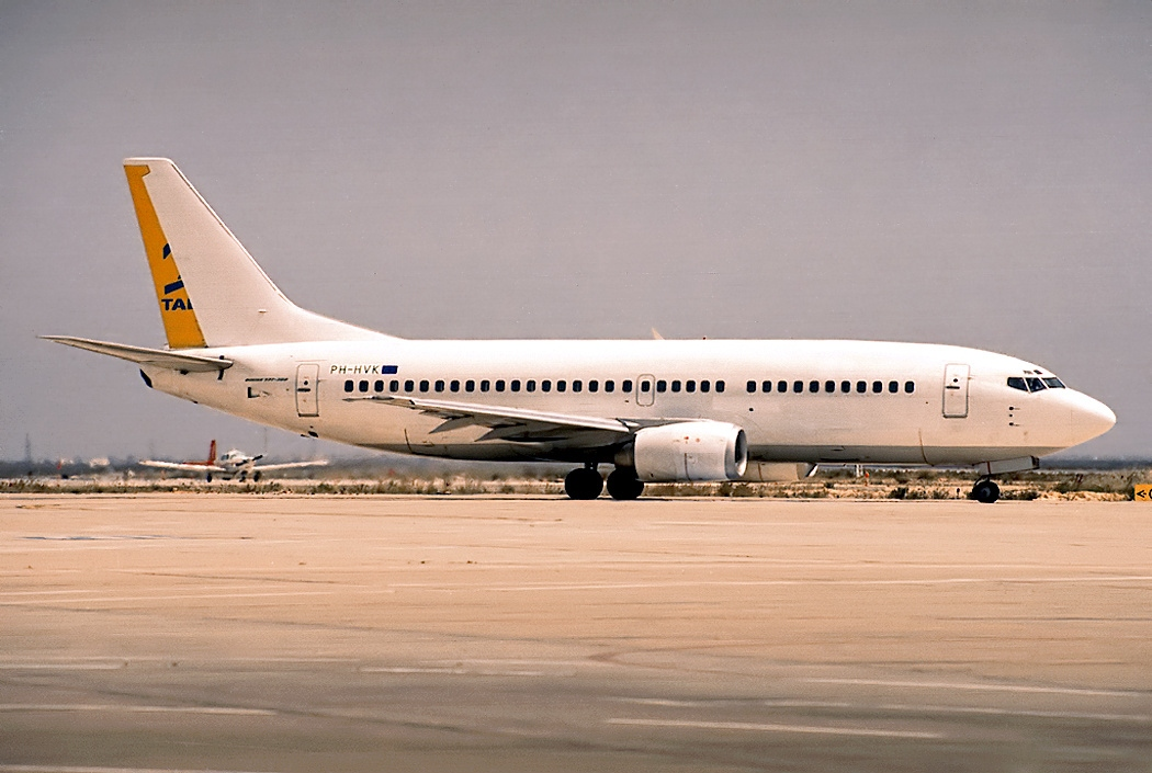 TAESA rudder .